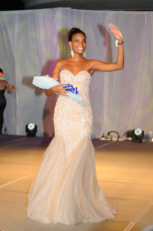 Camila Estico waving after winning Miss Seychelles 2014